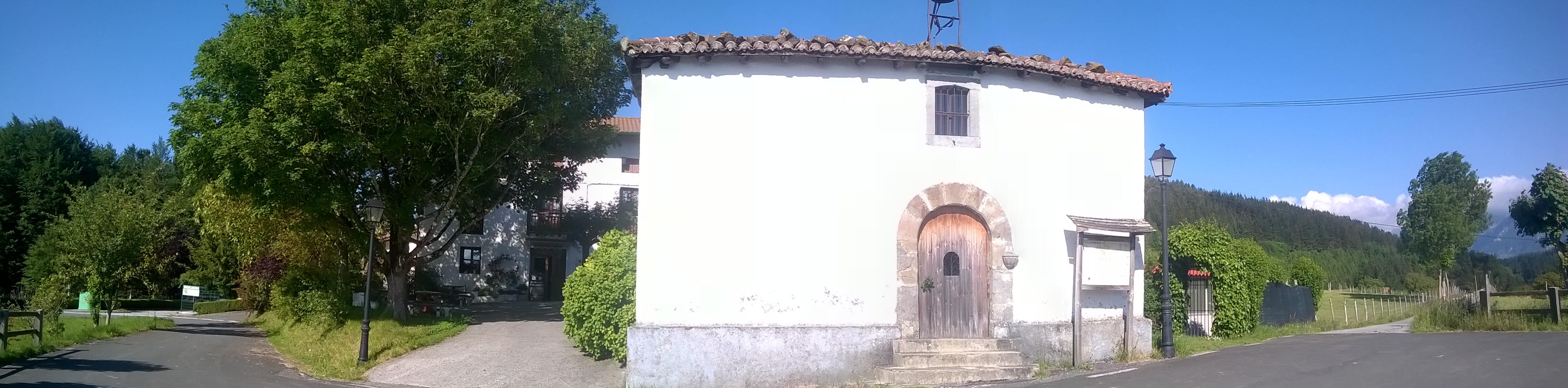 Altzagarate, Altzaga. Gipuzkoa, Basque Country.